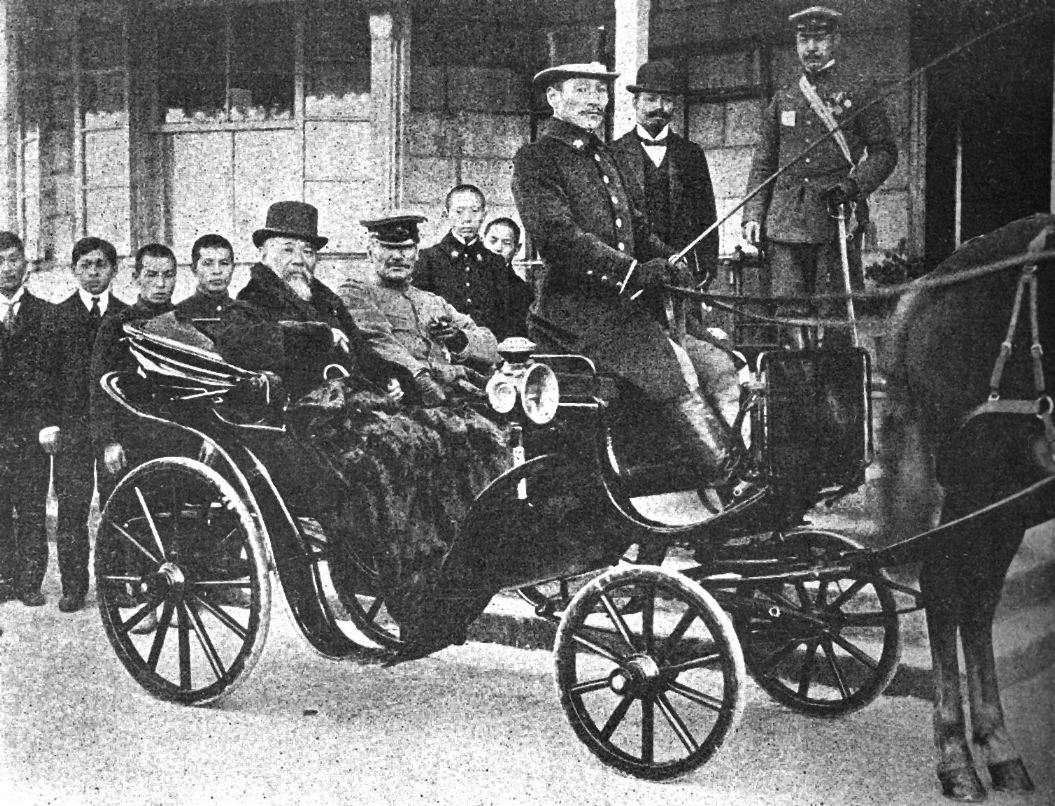 Japanese statesman Hirobumi Itō (伊藤博文) in Korea, 1905-1906.